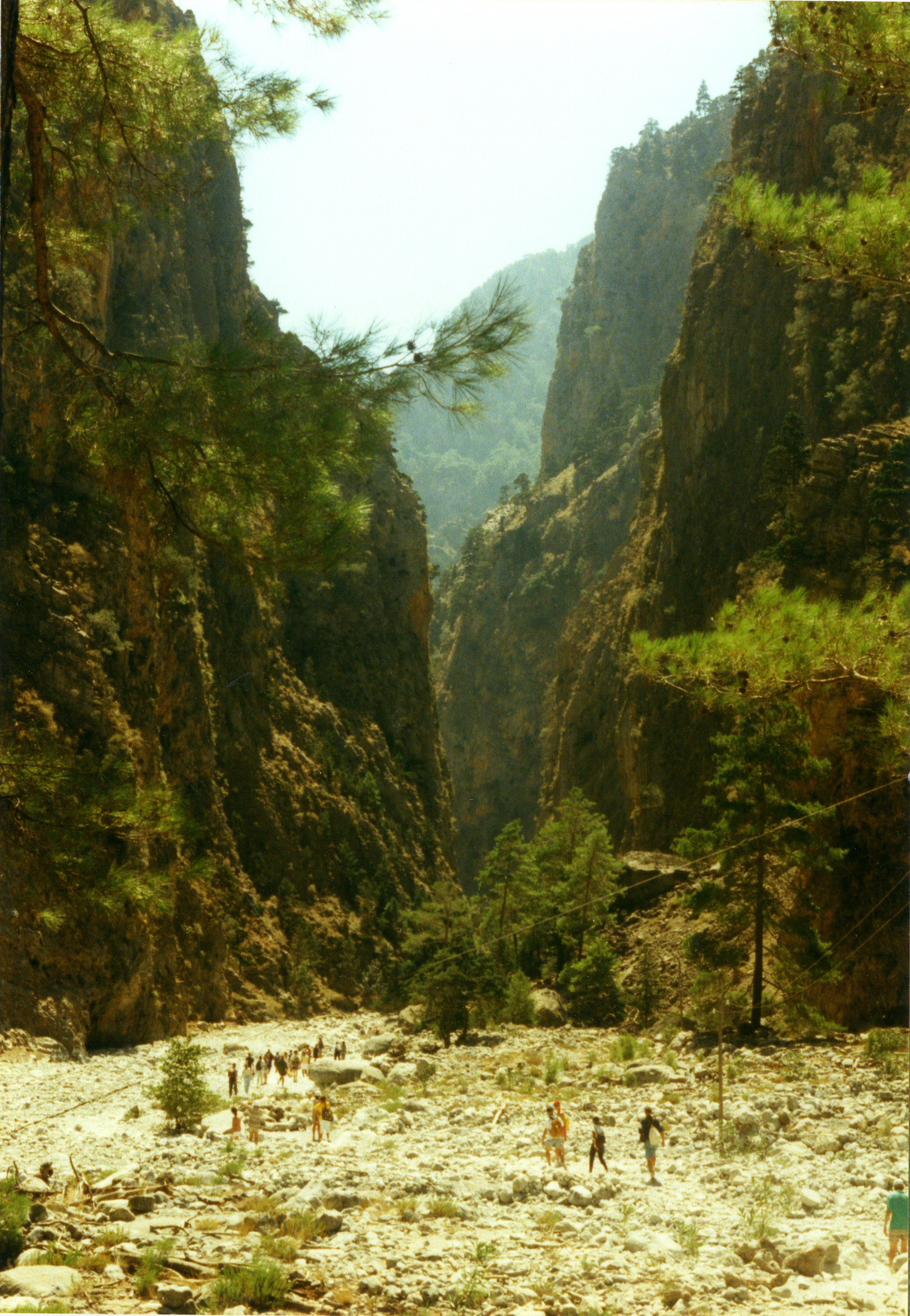 Samaria Gorge, Crete, Greece - the upper entrance. Author: user:Pibwl, 1997.